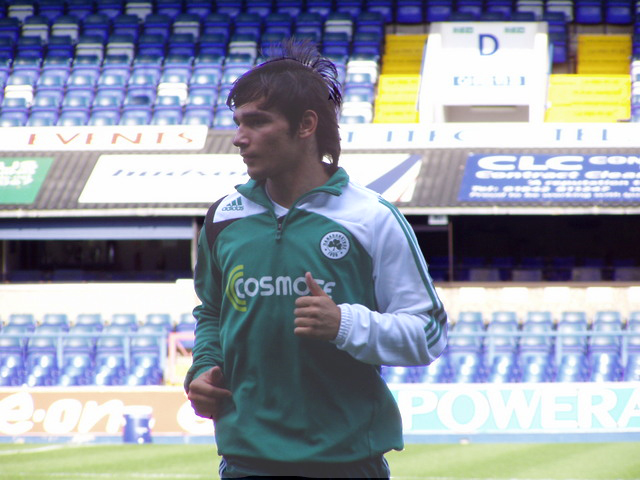 Sotiris Ninis - Panathinaikos FC Footballer before the match Ipswich Town FC - Panathinaikos